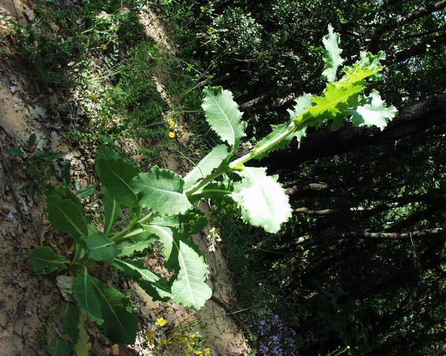 (en) Lactuca virosa, a photography originating of the internet site The accord of the autor, H. Brisse, is here. (fr) Lactuca virosa, une photographie issue du site internet L'accord de l'auteur, H. Brisse, se situe ici.